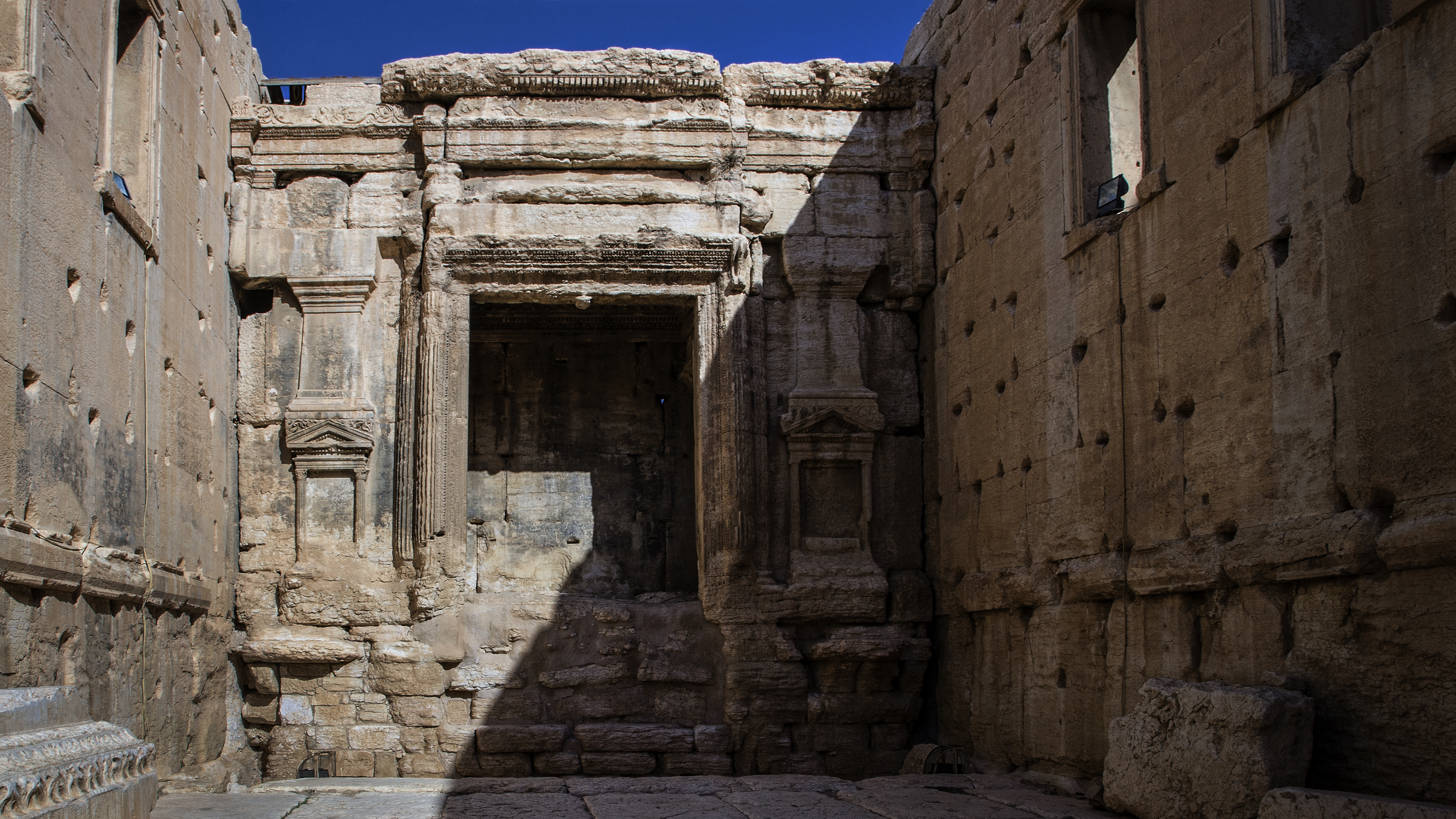 Temple of Bel, Palmyra, Syria